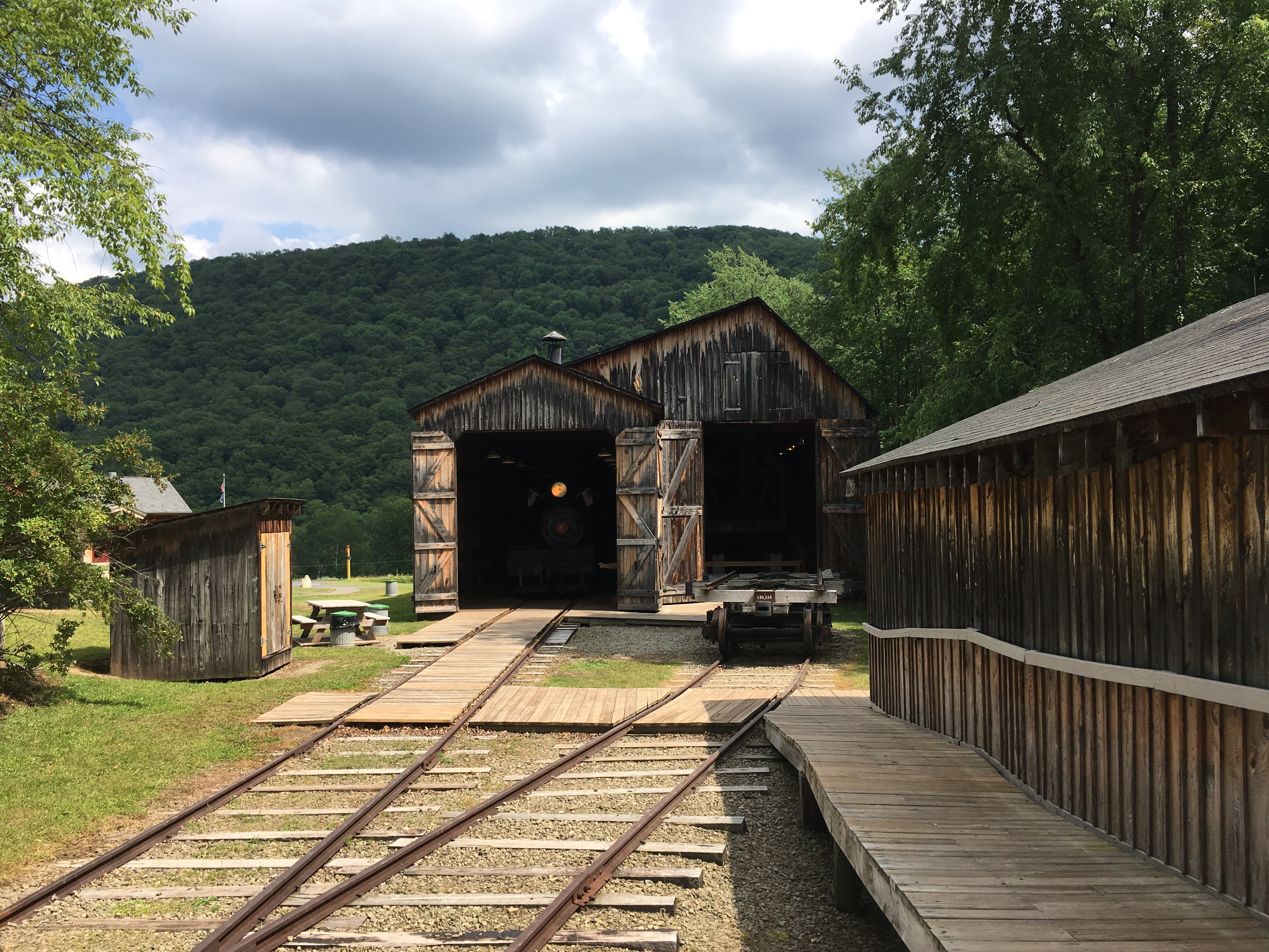 The engine house at the Pennsylvania Lumber Museum in Ulysses Township, Pennsylvania